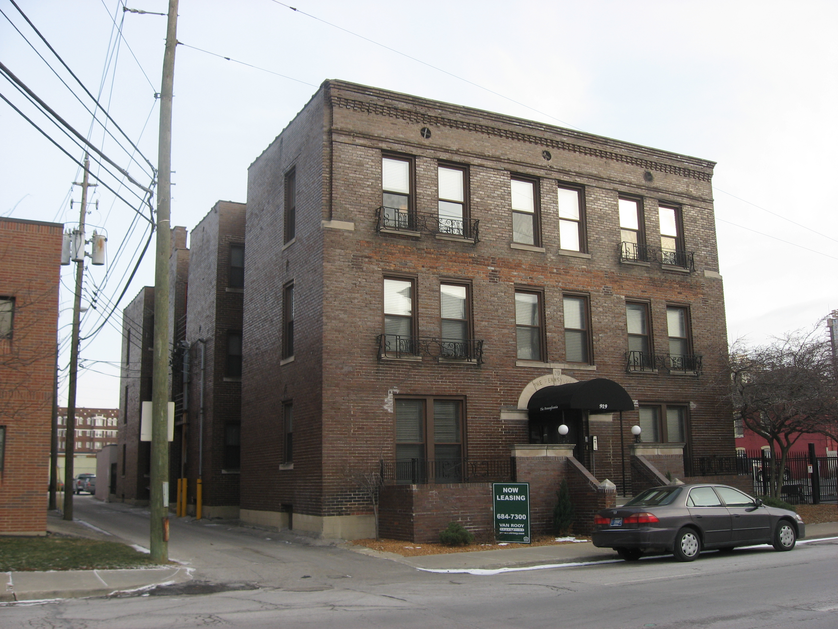 Front of The Pennsylvania, located at 919 N. Pennsylvania Street in Indianapolis, Indiana, United States. Built in 1906, it is listed on the National Register of Historic Places as one of the "Apartments and Flats of Downtown Indianapolis Thematic Resources".